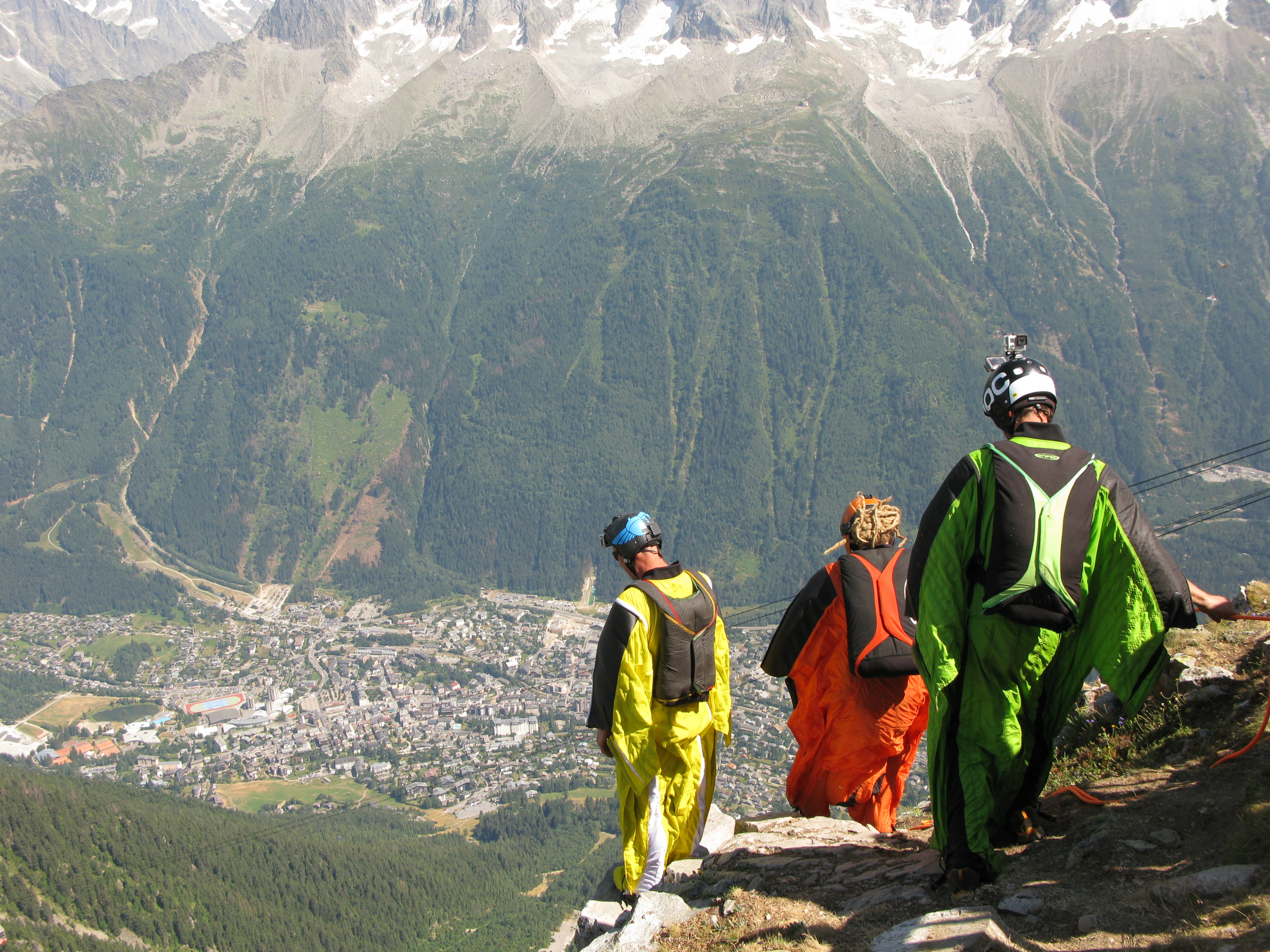 Three Wingsuit BASE jumpers getting ready to jump at an exit point in France.